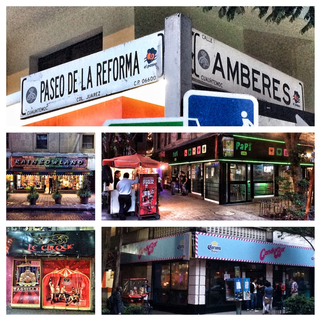 Amberes street, Zona Rosa, Mexico City, where there are many gay businesses